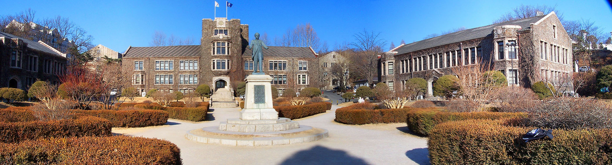 Yonsei University main building.